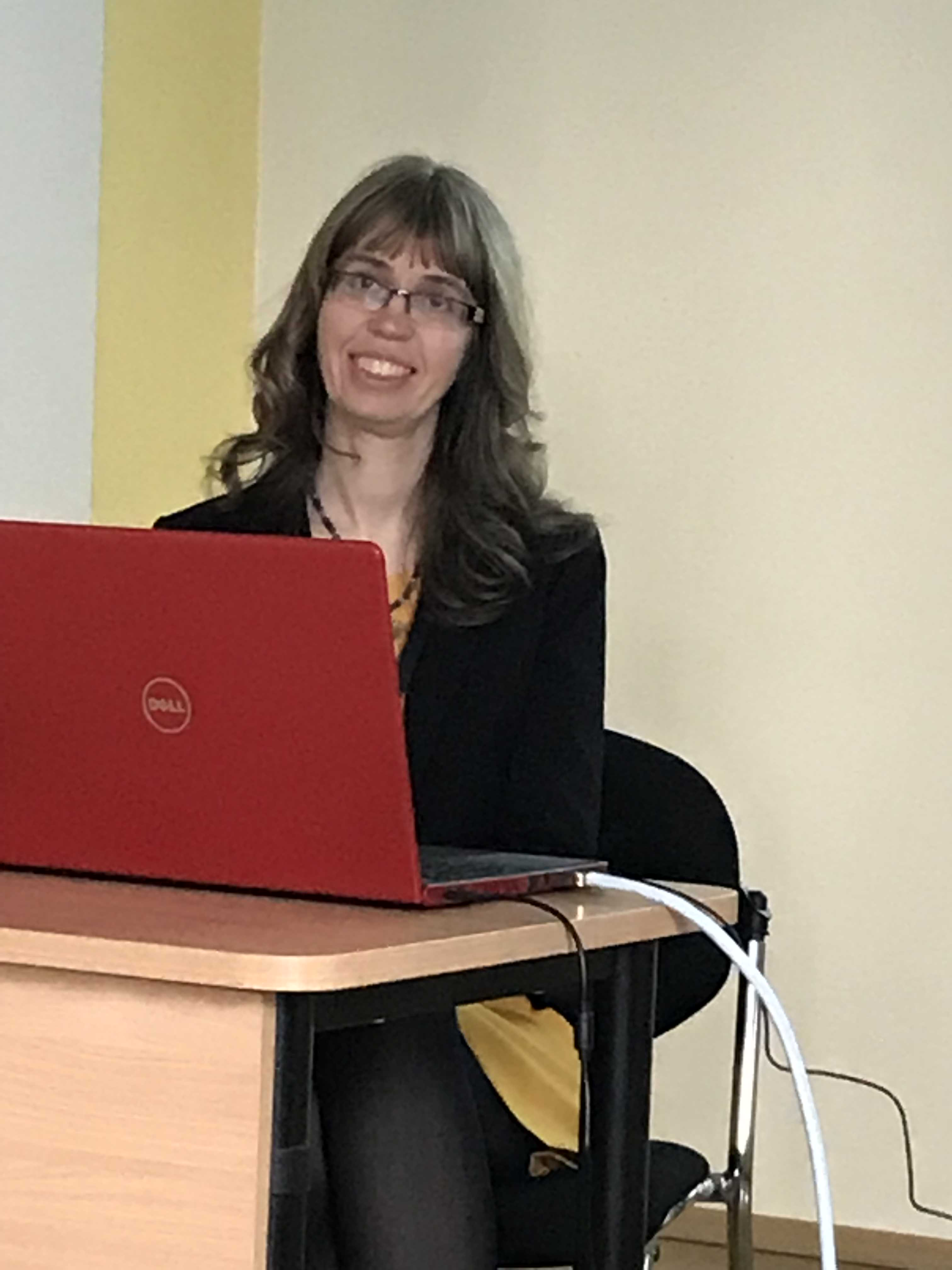 Hesi Siimets-Gross, a historian of law from Estonia, associate professor of the University of Tartu, presenting on a conference on April 16, 2019. Photo by Marju Luts-Sootak.